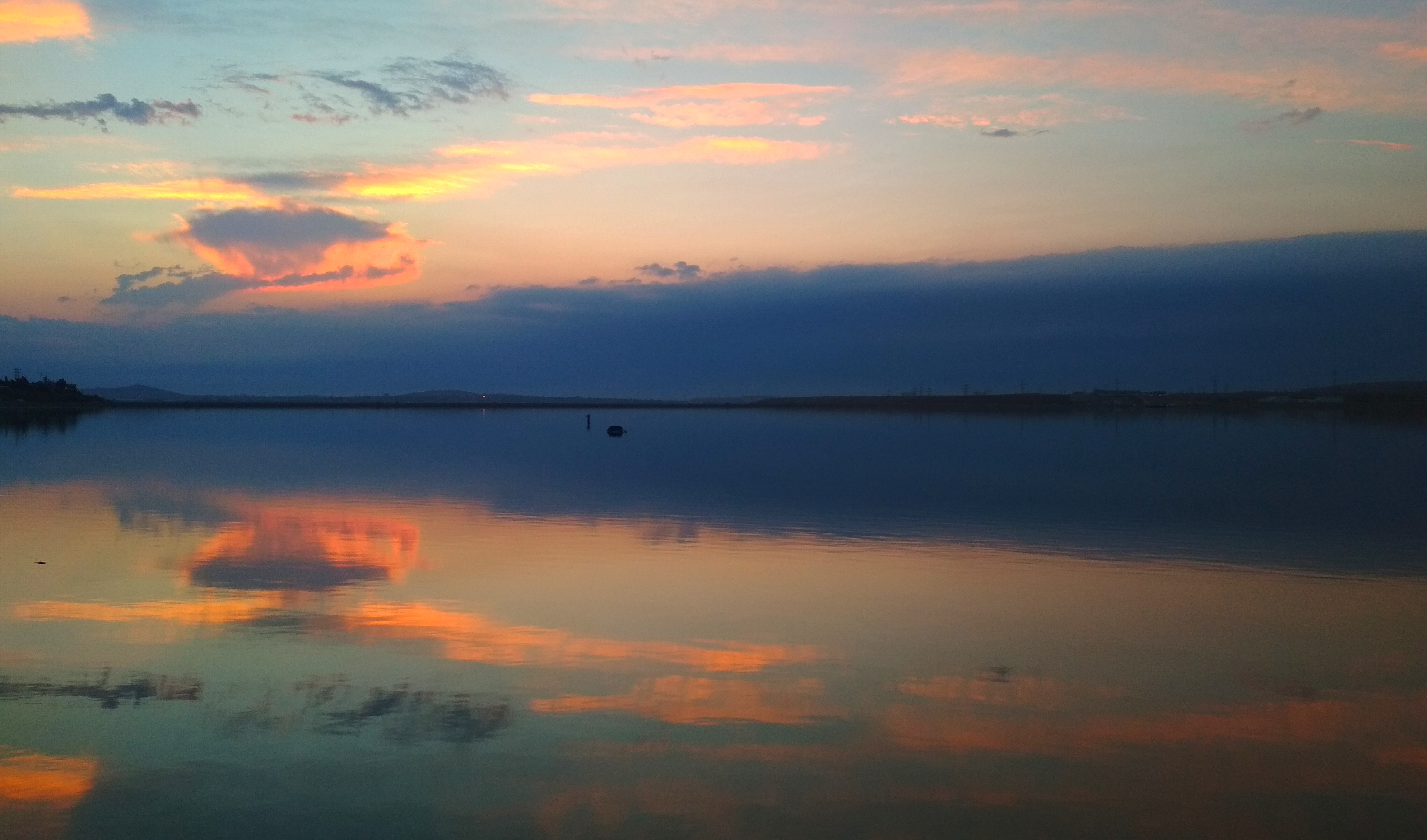 Nature's photo.